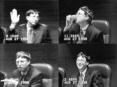 Stills from videotape of Bill Gates' deposition at 1998 United States v. Microsoft trial.